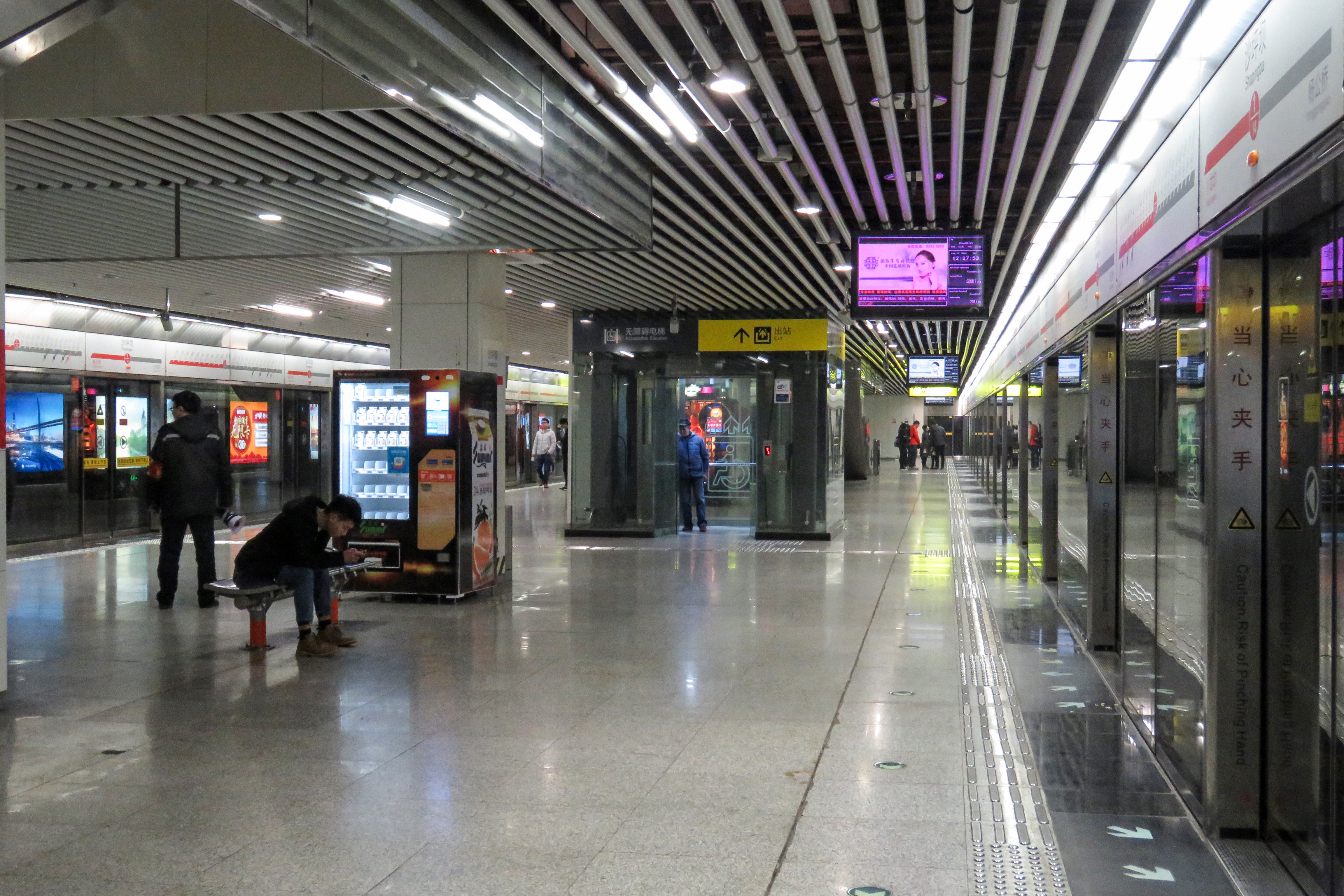 Not that convenient as compared to that (in)famous Chongqingbei, the intricate and puzzling station.